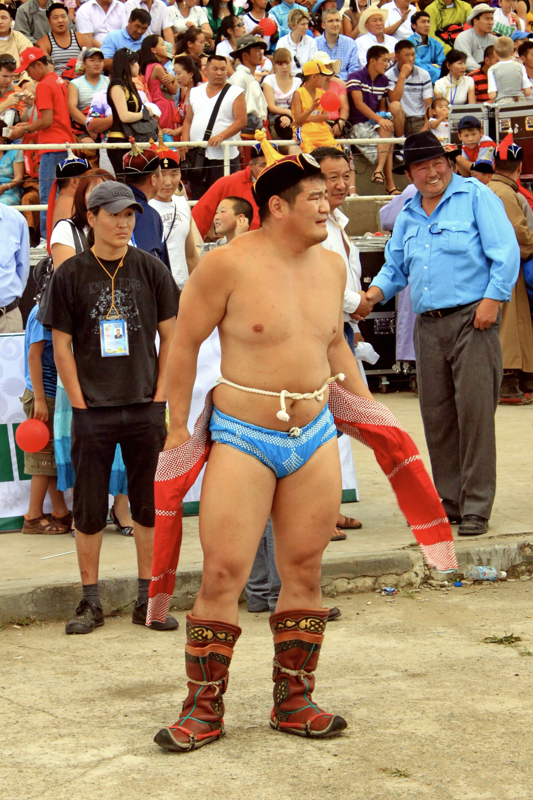 Traditional Mongolian wrestling during the Naadam festival at the national stadium. Wrestler in traditional costume. Ulan Bator, Mongolia.